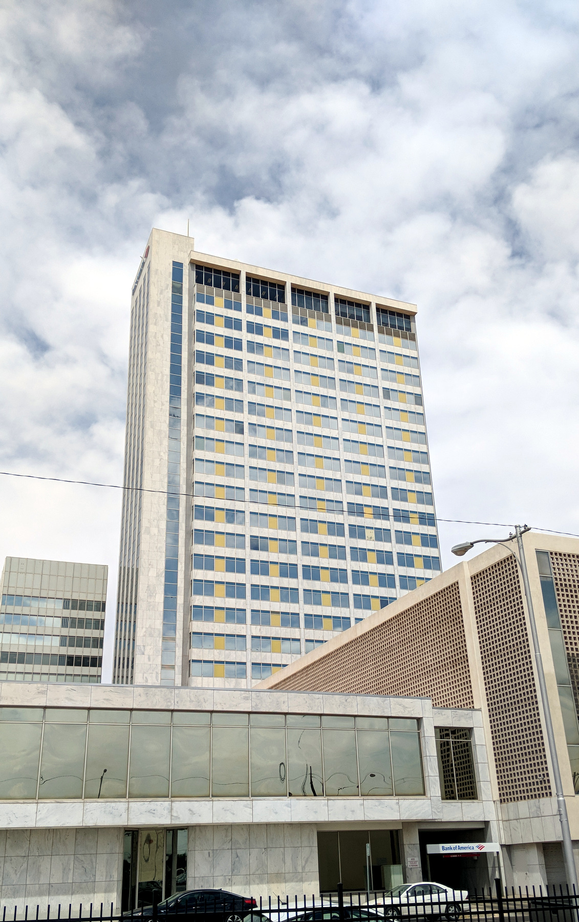 303 W. Wall St., Mildand, TX; formerly the First National Bank Building; known as the Bank of America Building in 2018